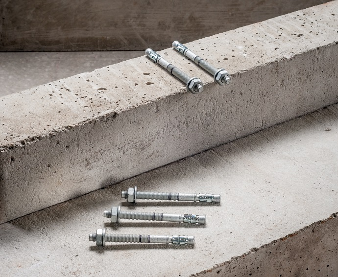 Rawlplug mechanical anchors